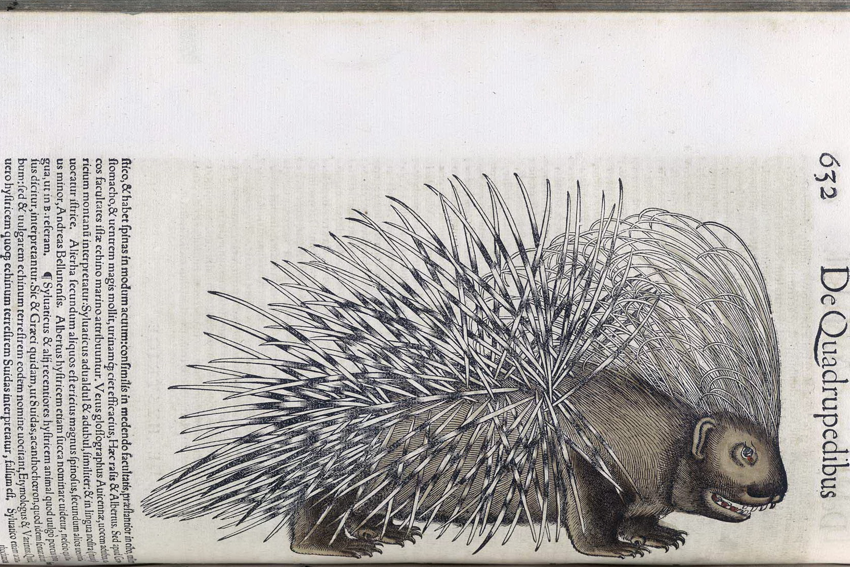 Conrad Gessner (* 1516; † 1565) : Porcupine, from the first volume of Historiae animalium (Zürich, 1551).